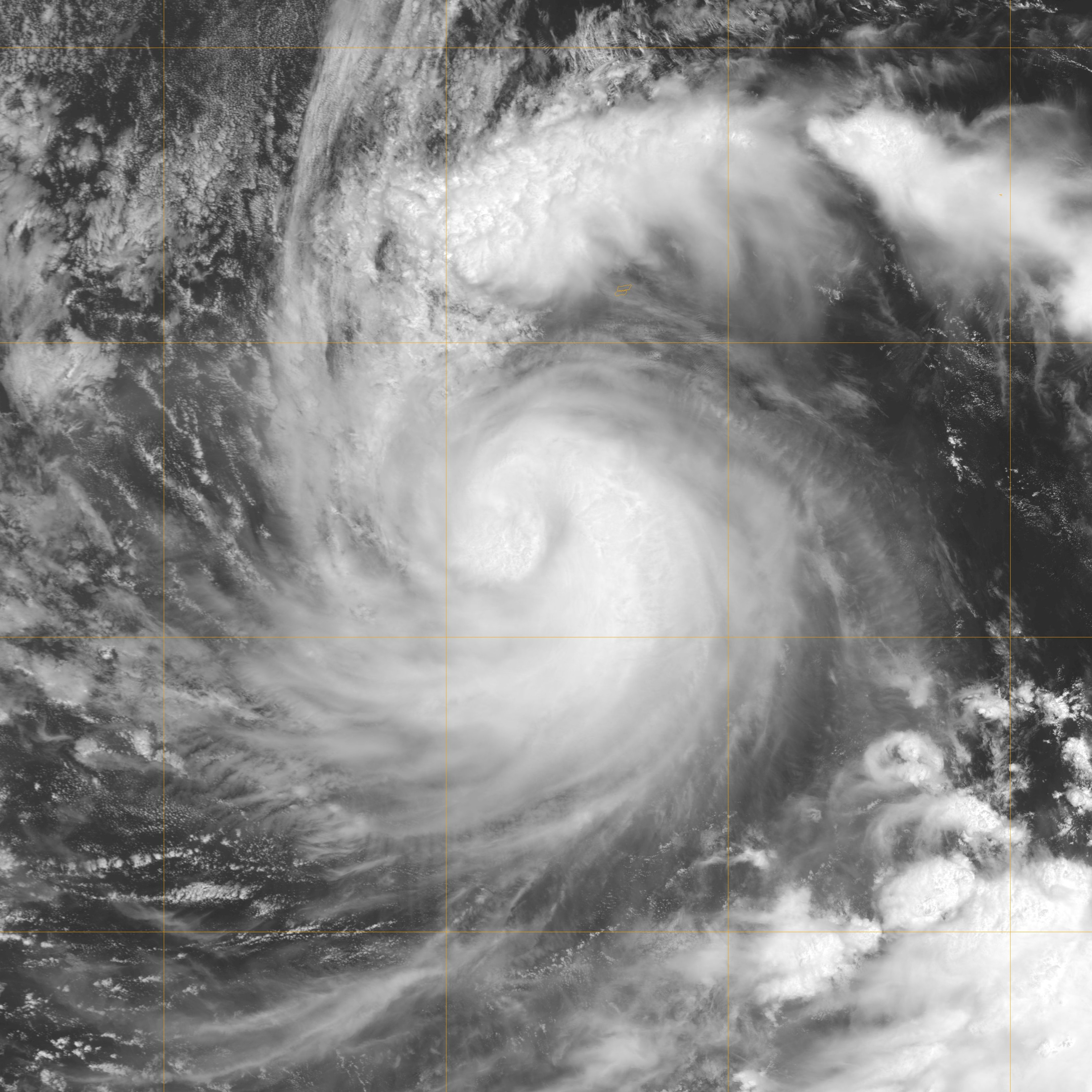 This image of Tropical Storm Kristy was captured at 1801 UTC when it was located in the eastern Pacific Ocean. At the time, maximum sustained winds were 65 mph and the minimum pressure was 1000 mb.